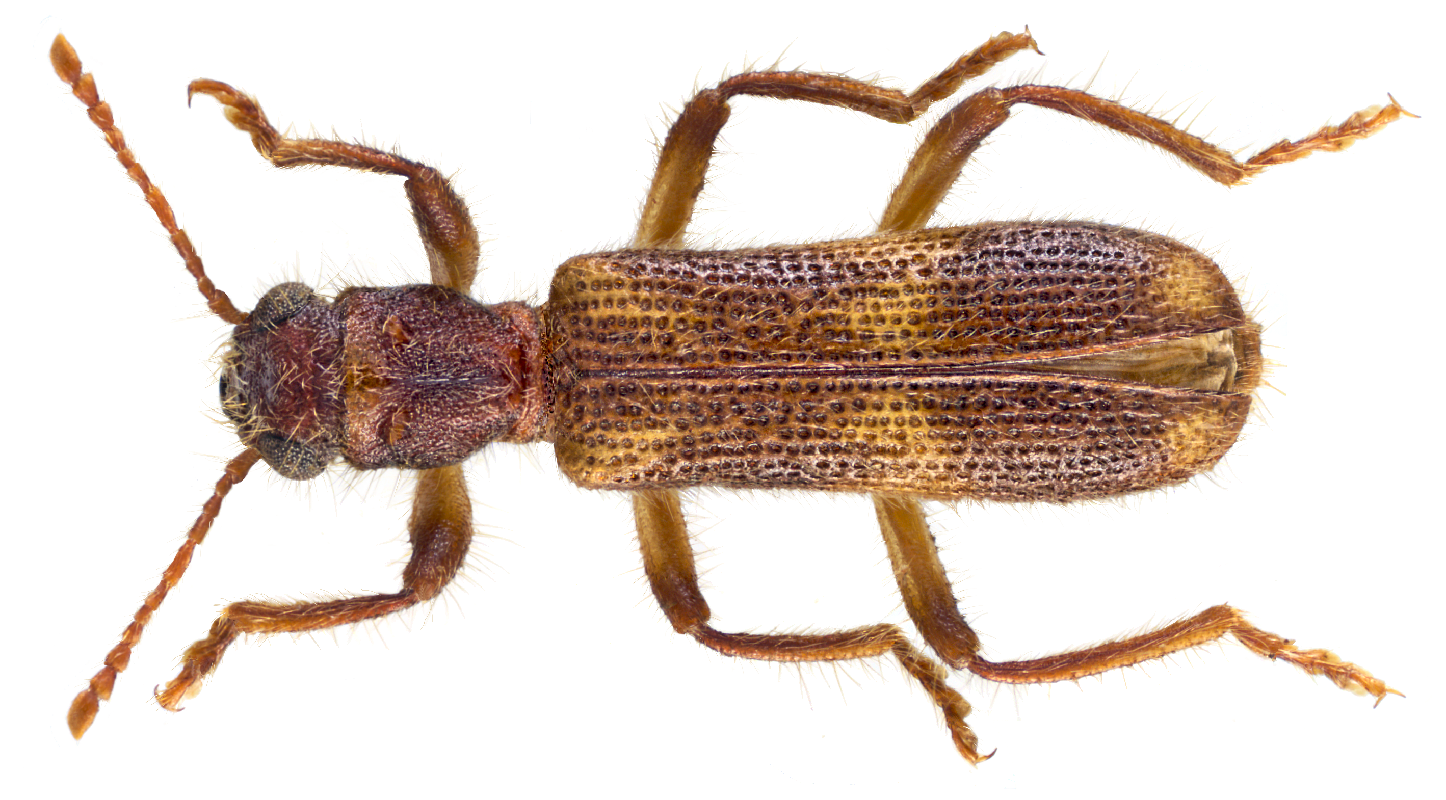 Family: Cleridae Size: 8,2 mm (7,0 to 12.0 mm) Origin: Europe Ecology: in dry wood, feeds on Anobius species and Hylotrupes Location: Germany, Schleswig-Holstein, Laboe leg.det. U.Schmidt, 10.VIII.1978 Photo: U.Schmidt, 2014